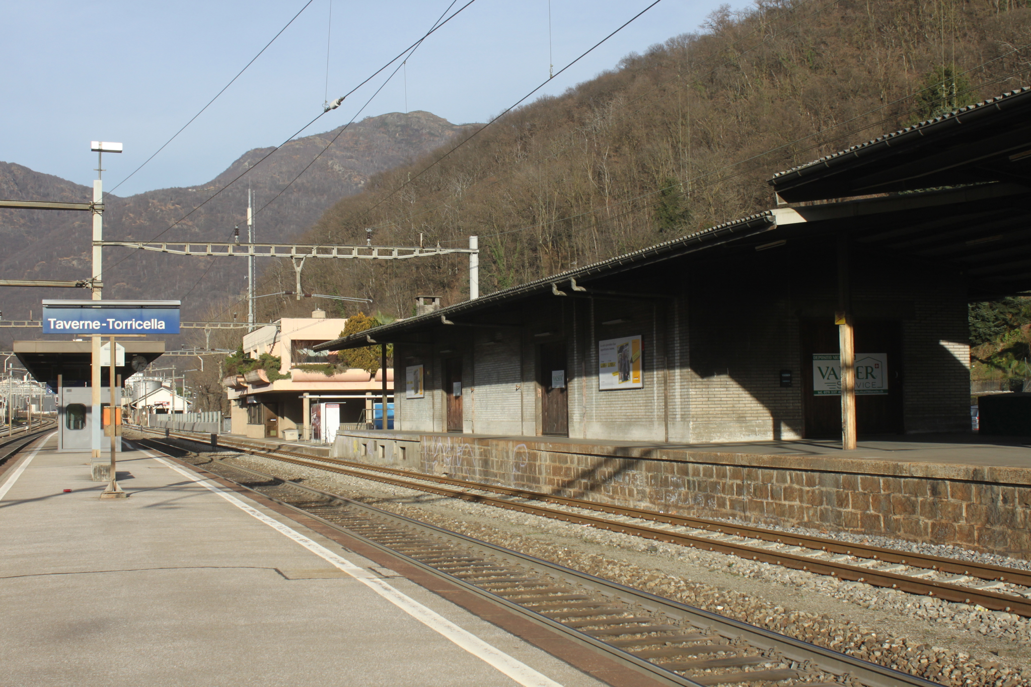 Taverne-Torricella train station.